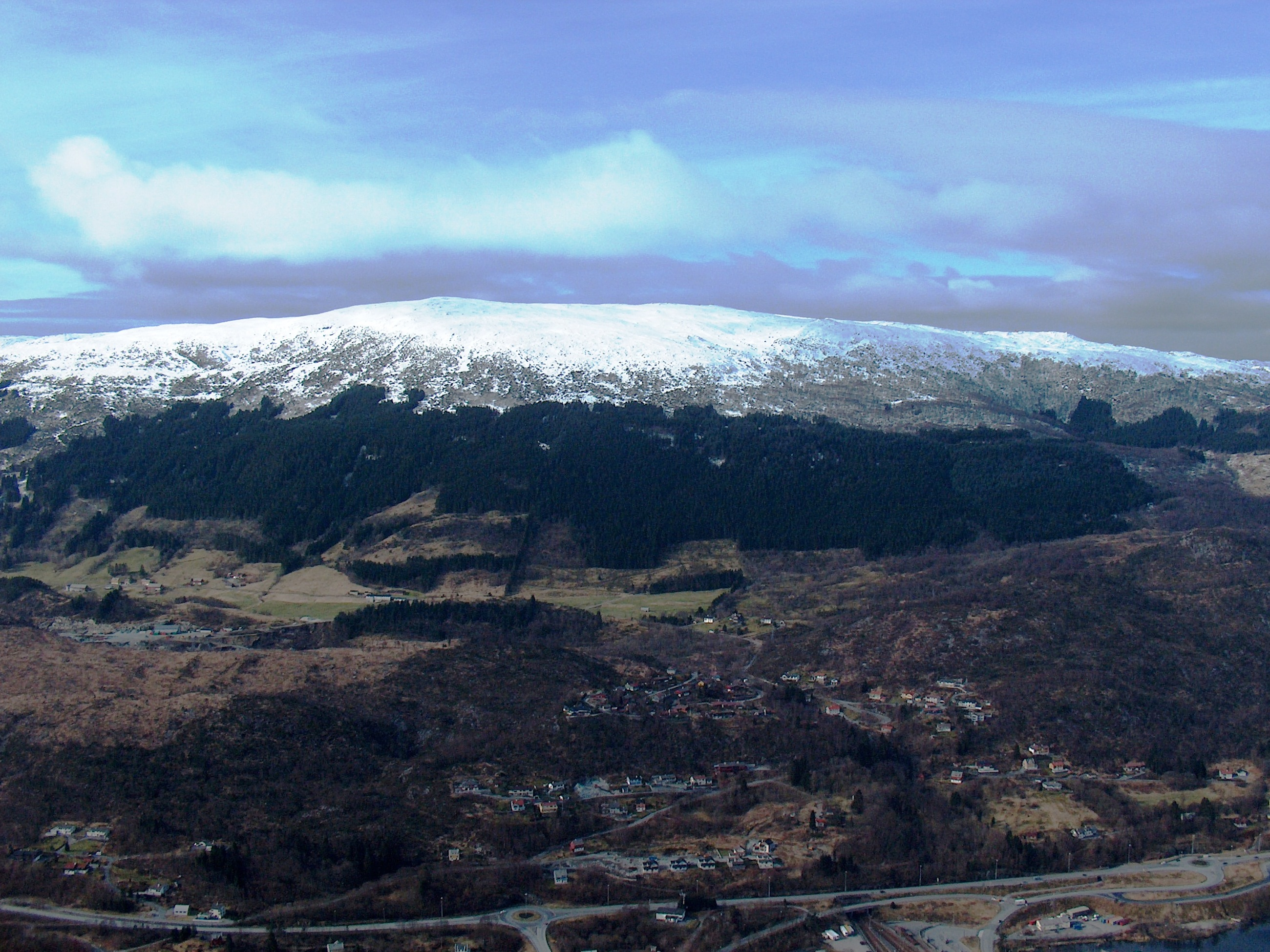 Description=Borga